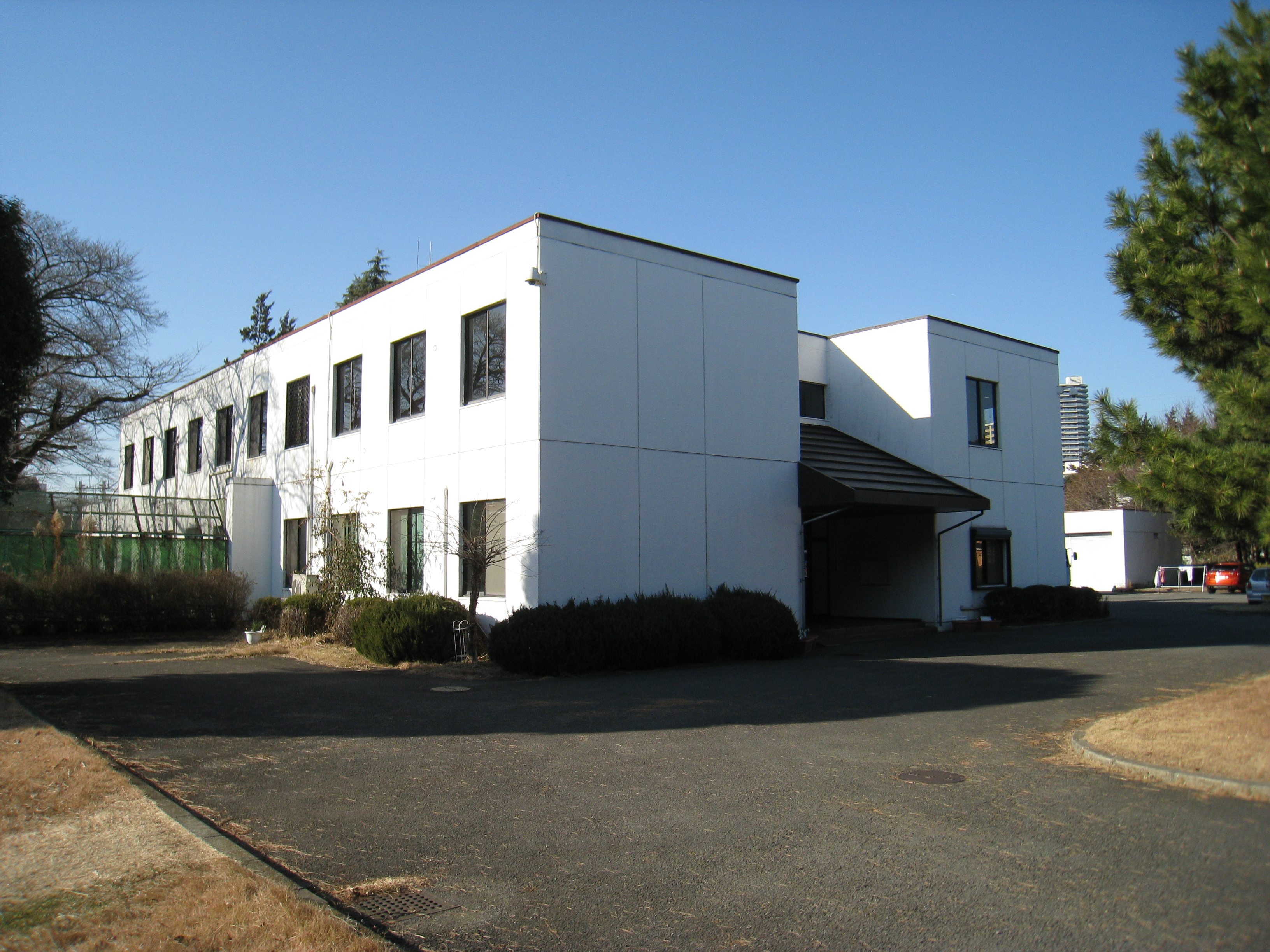 Kanagawa Reformatory Training School